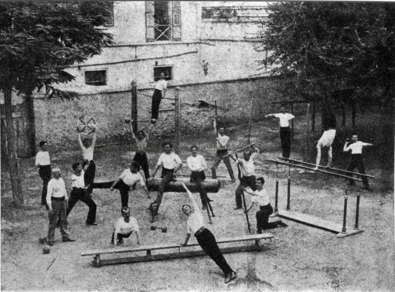 Bulgarian gymnastic union "Iunak" in the yard of Bulgarian men high school in Solun or Thessaloniki